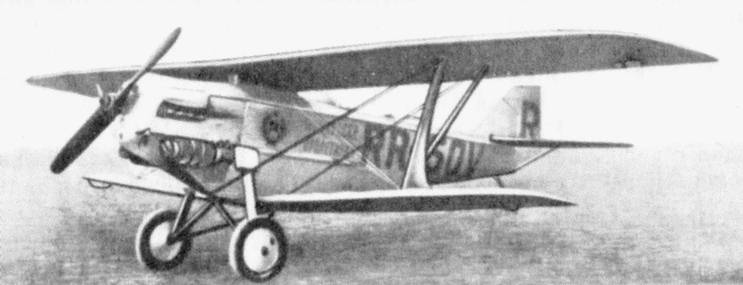 The second prototype Tupolev ANT-3 (R-3NL) powered by a Napier Lion engine, registered RR-SOV and named Proletariy